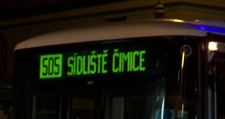 New Town, Prague, the Czech Republic. Republic Square, night bus. - Google Maps - Google Earth